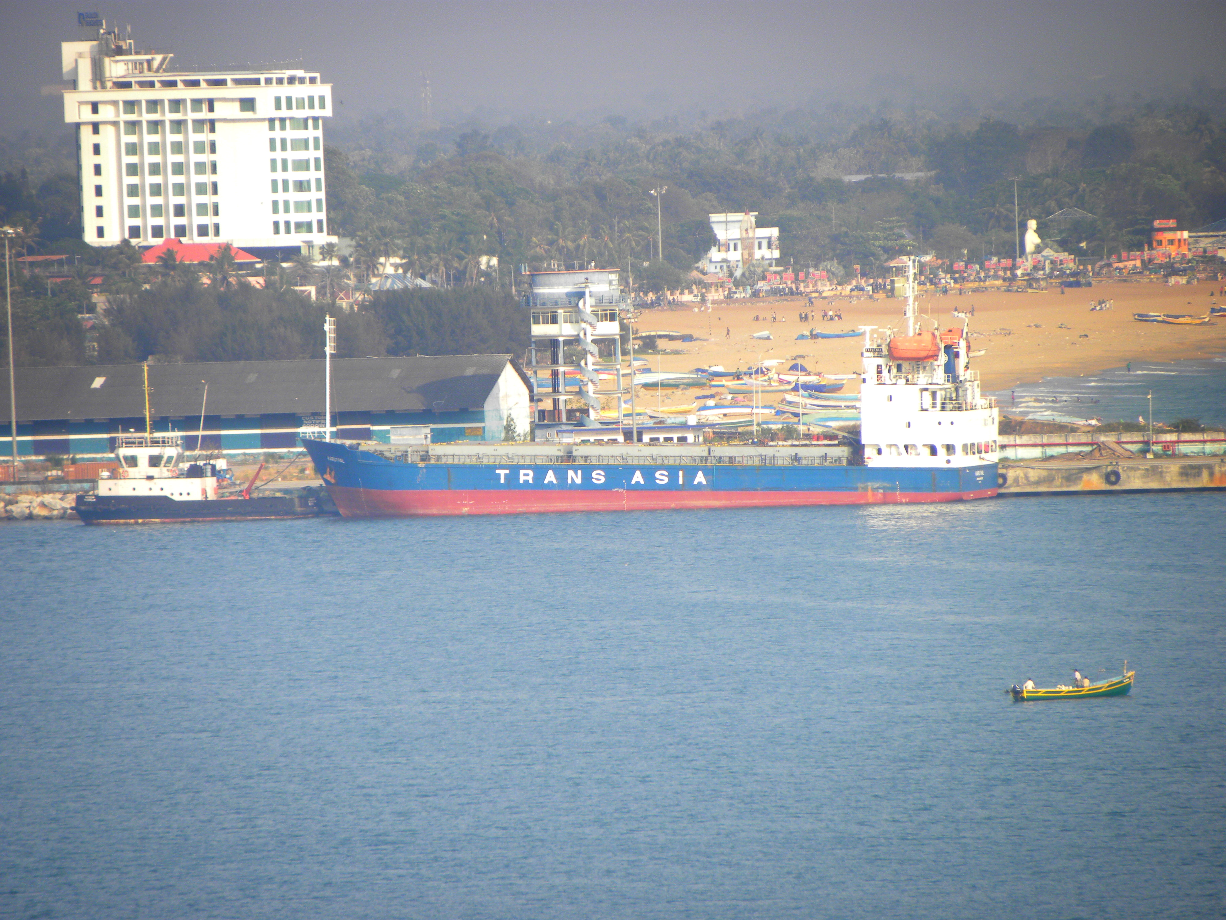 Port of Quilon established in the year AD.825